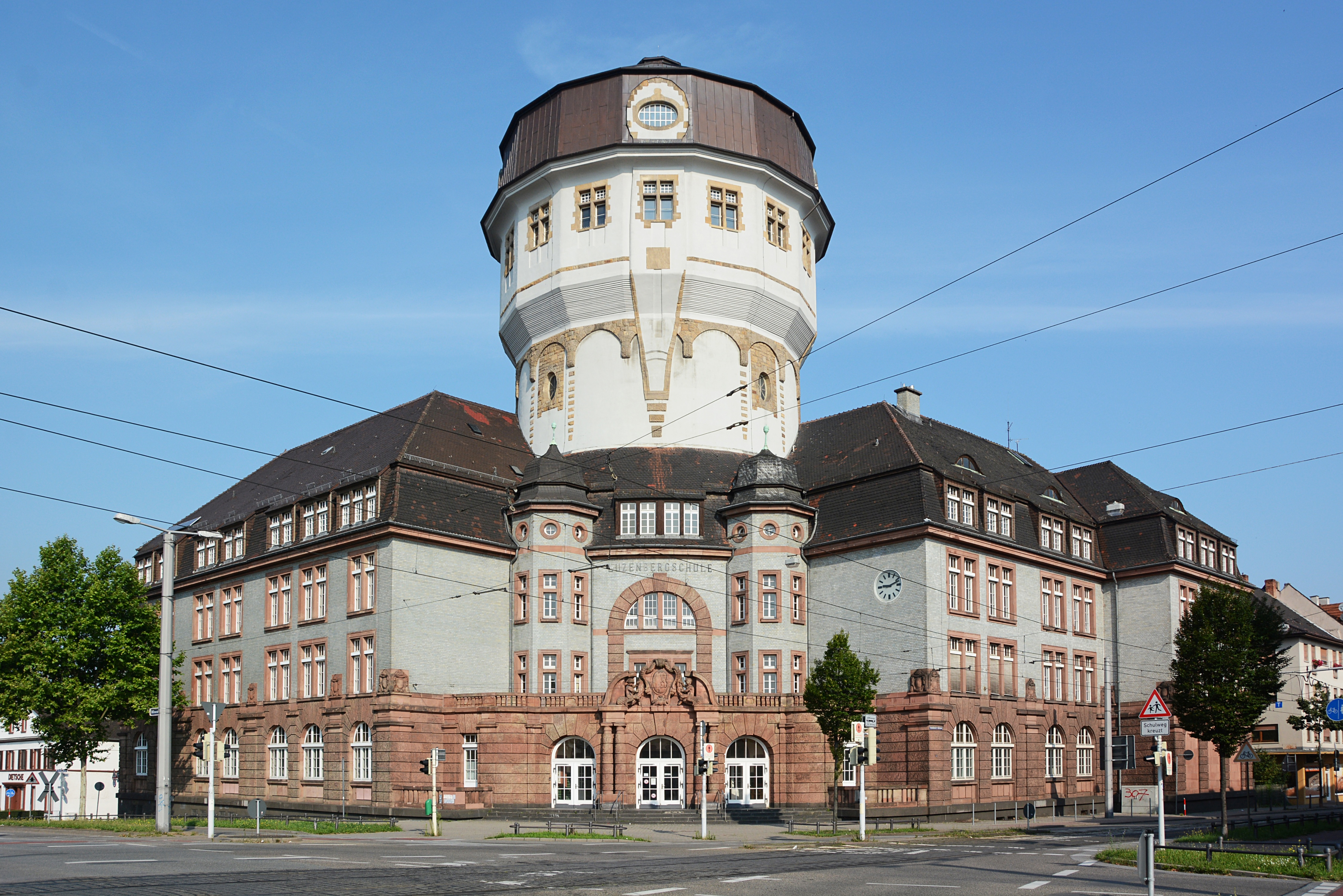 Luzenberg school Mannheim with watertower